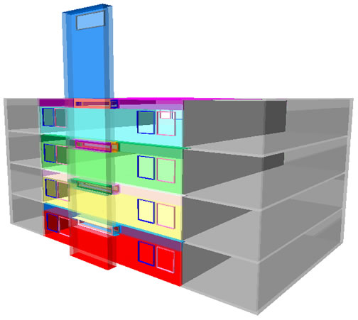 Solar Chimney; CAD model (in TAS) used to investigate solar chimney performance. Image by Nikolaos Angelis